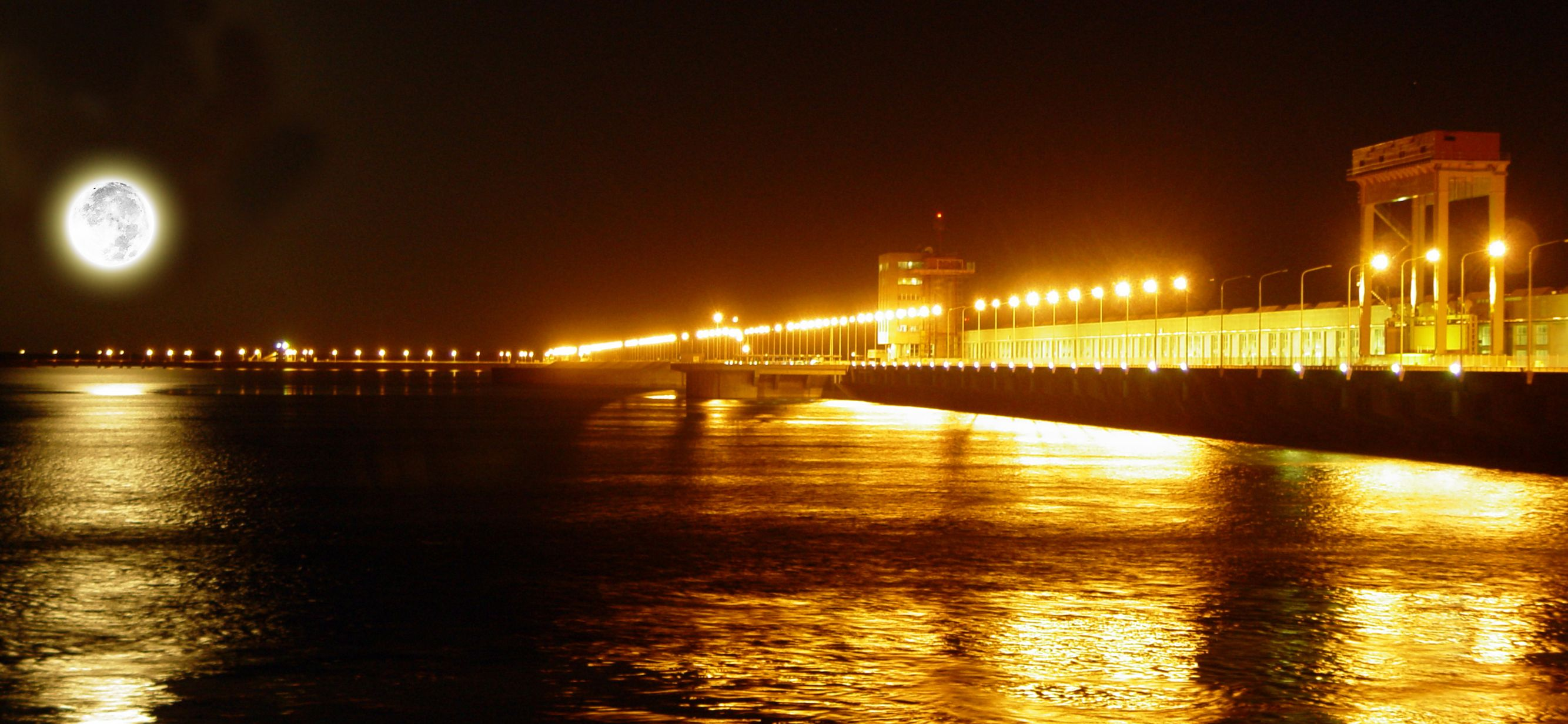 Yacyretá Dam.